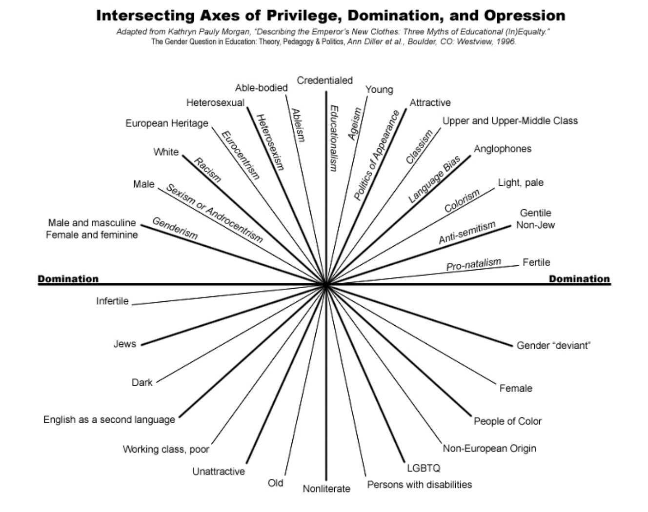 Intersecting axes of Discrimination